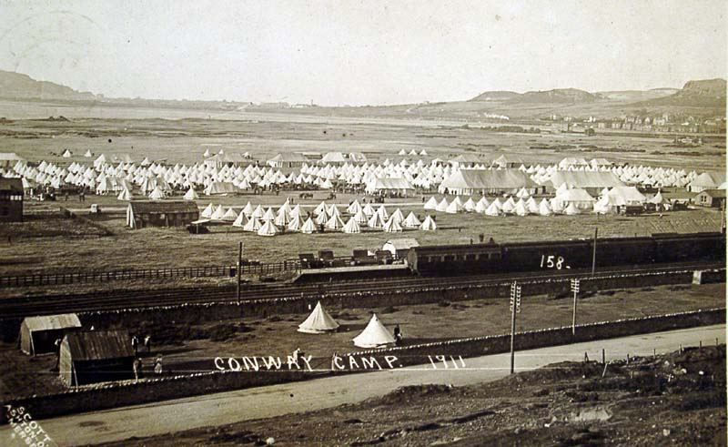 Postcard of the Conwy (Anglicized to Conway) Camp on the North Wales coast, 1911.